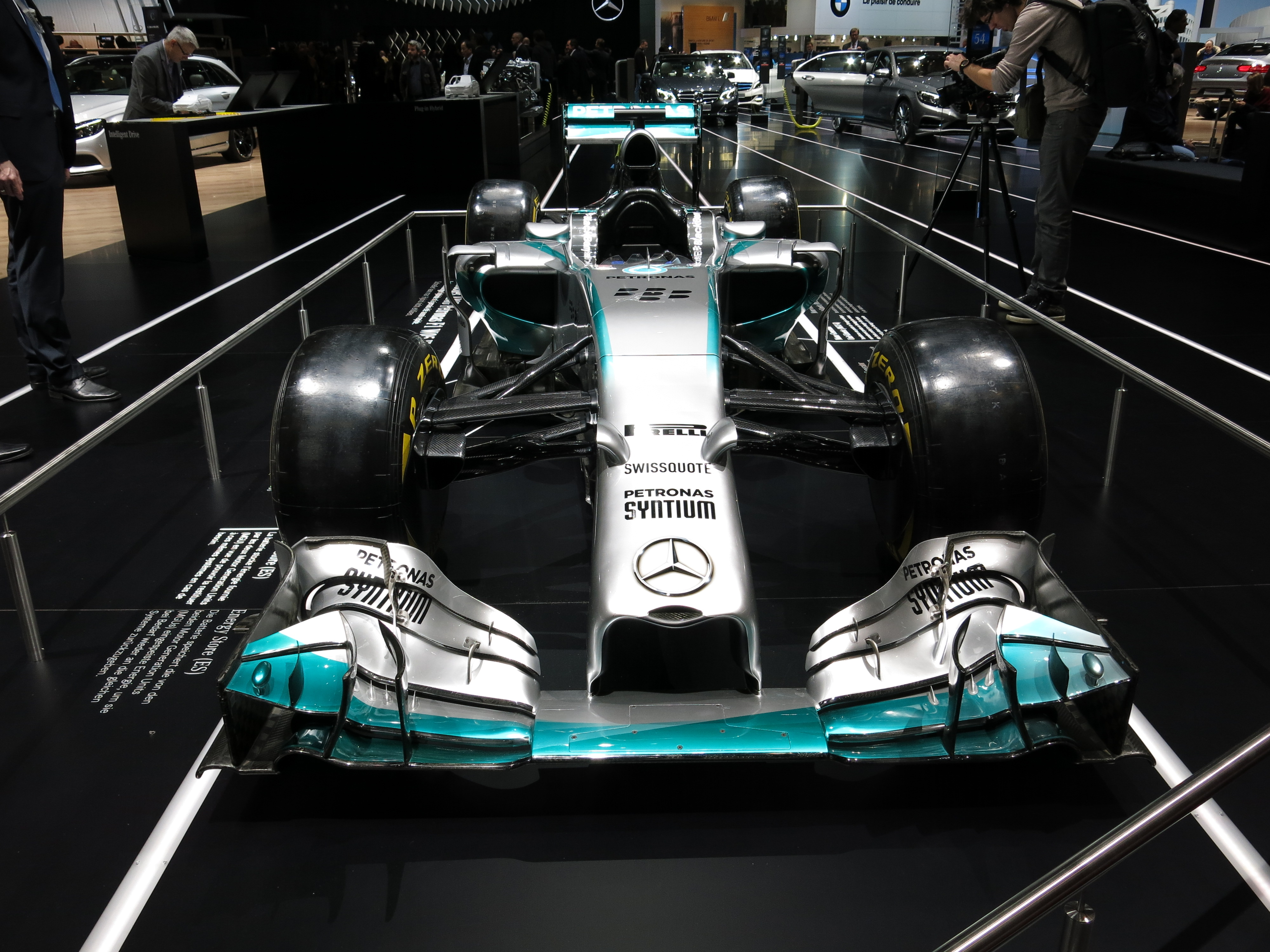 Geneva Motor Show 2015 (photo taken on the first press day)